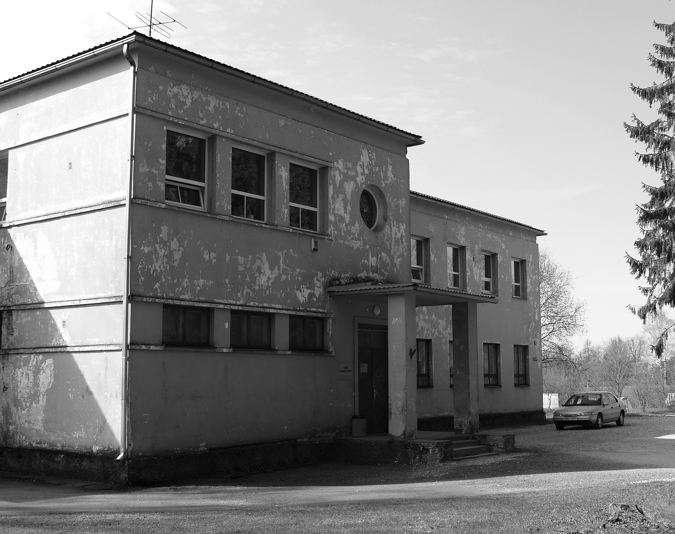 Kose Library old building